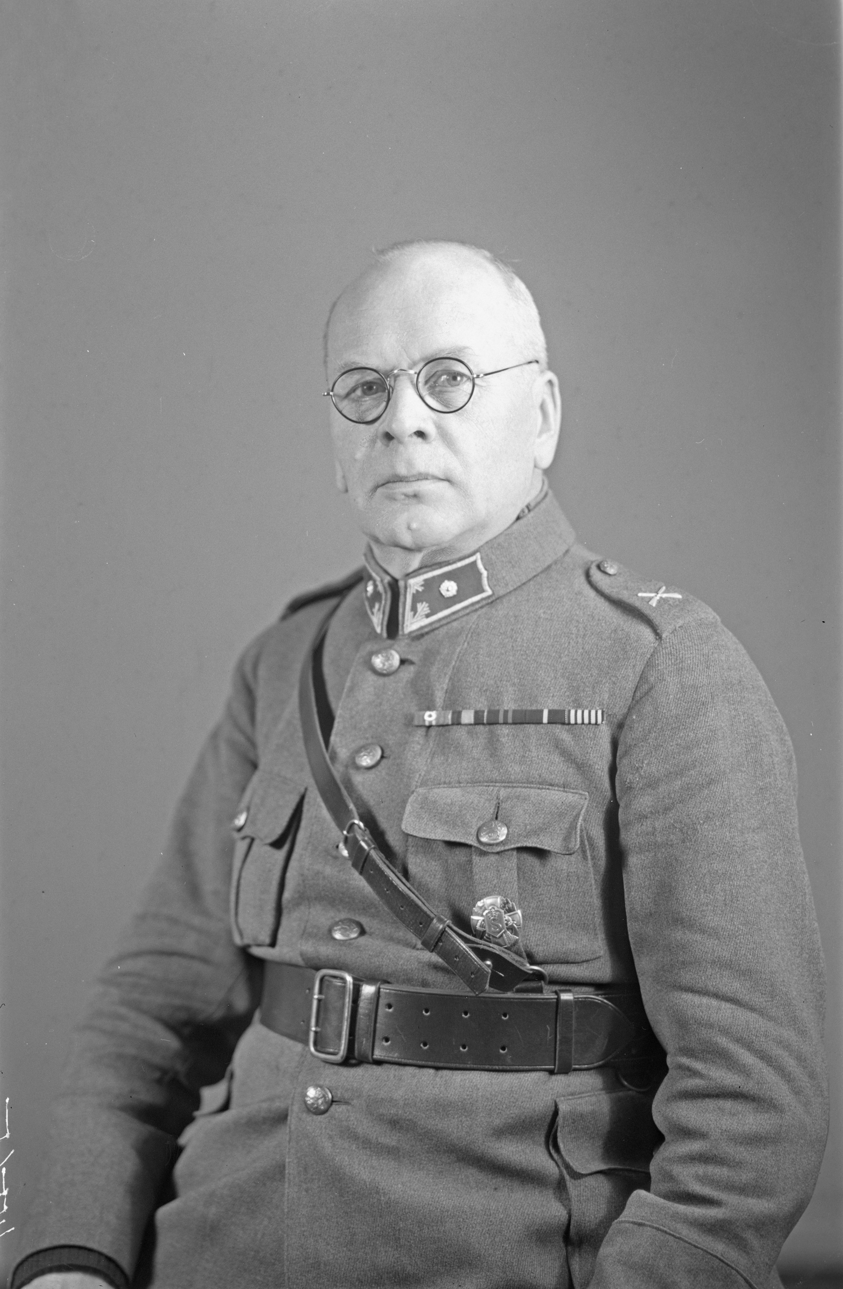 Photograph of the Finnish photographer Aarne Pietinen (1884–1946) in military uniform.